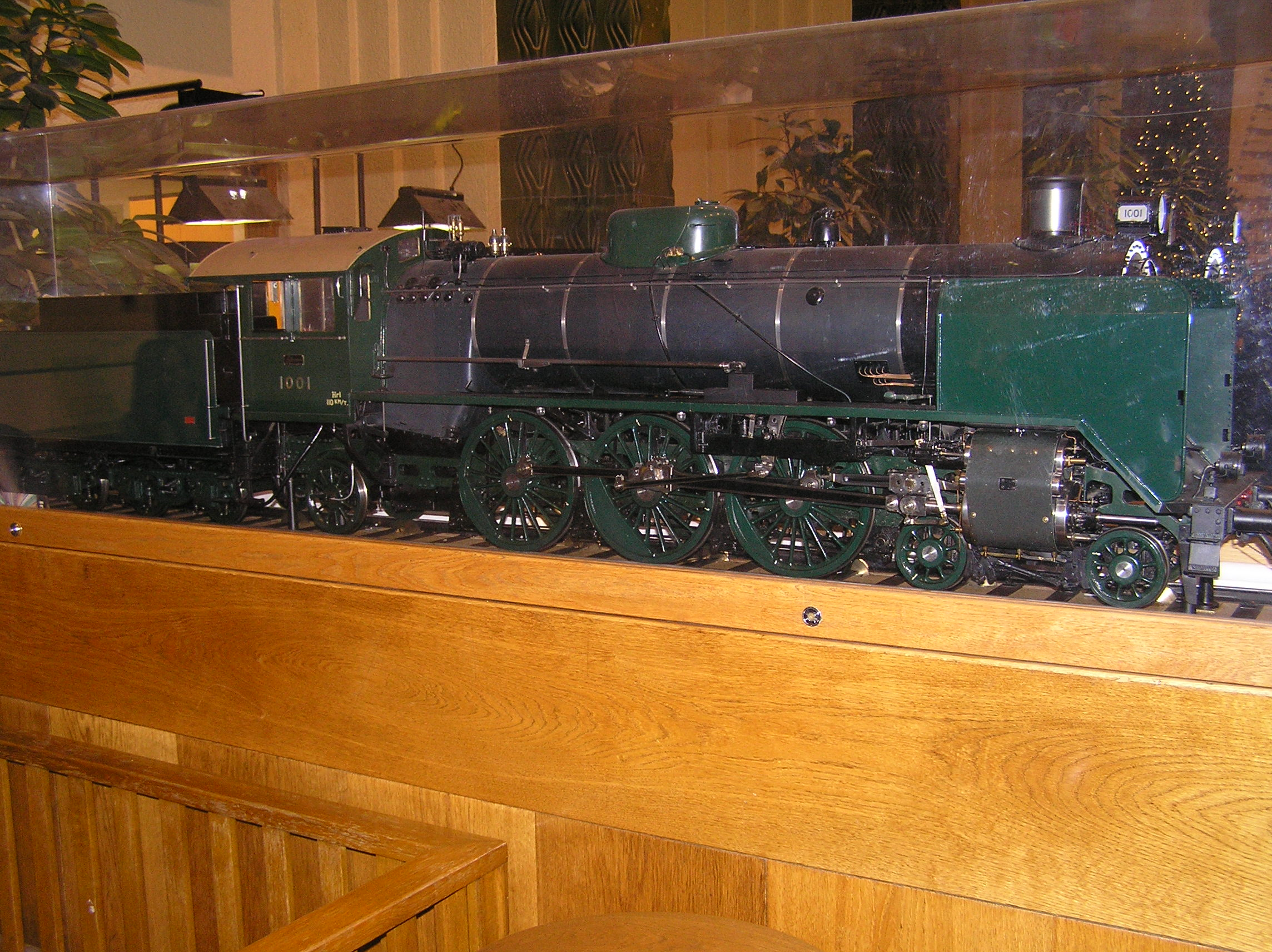 This (scale 1:10) model is situated in the ticket hall of Helsinki Central Station, and belongs to the Finnish Railway Museums collection. The subject Pacific VR Class Hr1 locomotive number 1001. This was the first of its class of locomotive to be built and was in service 1937-1969. (Hr1 1000 had the lowest running number in the class, Nos. 1001 and 1002 were in fact built before No 1000.) Construction of the model started in 1937 at the VR Viipuri (now Vyborg) works mechanical school. The school teacher Alfred Virento led the project. The model was almost completed just before the outbreak of the winter war on 30 November 1939. The model was packed in wooden packages and was sent to the VR Kuopio works school for storage. Then in the mid 50's it was sent to VR Hyvinkää works school. In 1937 in the VR Viipuri works school was a mechanical student called Veikko Koistinen, who was working on the construction of the model. Later in 1958 when Veikko Koistinen was a professional mechanist at VR Hyvinkää works, he completed the model. Veikko Koistinen also restored the model in early 1990's as his last work before his retirement. Initially in 1958 the model was situated in Tampere station, but was moved to Turku station in the early 1960's. In February 1981 the model was again moved to the Ticket Hall Helsinki Central Station.